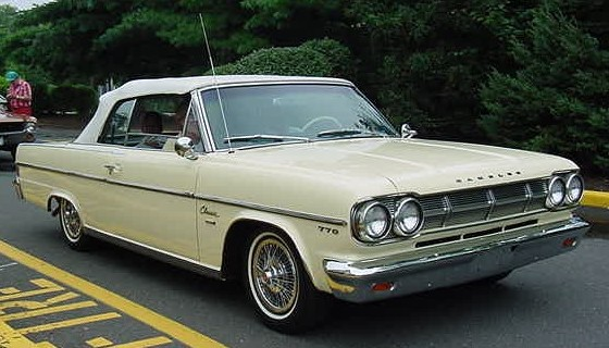 1965 Rambler Classic 770 convertible built by American Motors Corporation (AMC) - white with white top. Picture taken at the AMCRC car show that was held in Somerset, New Jersey.